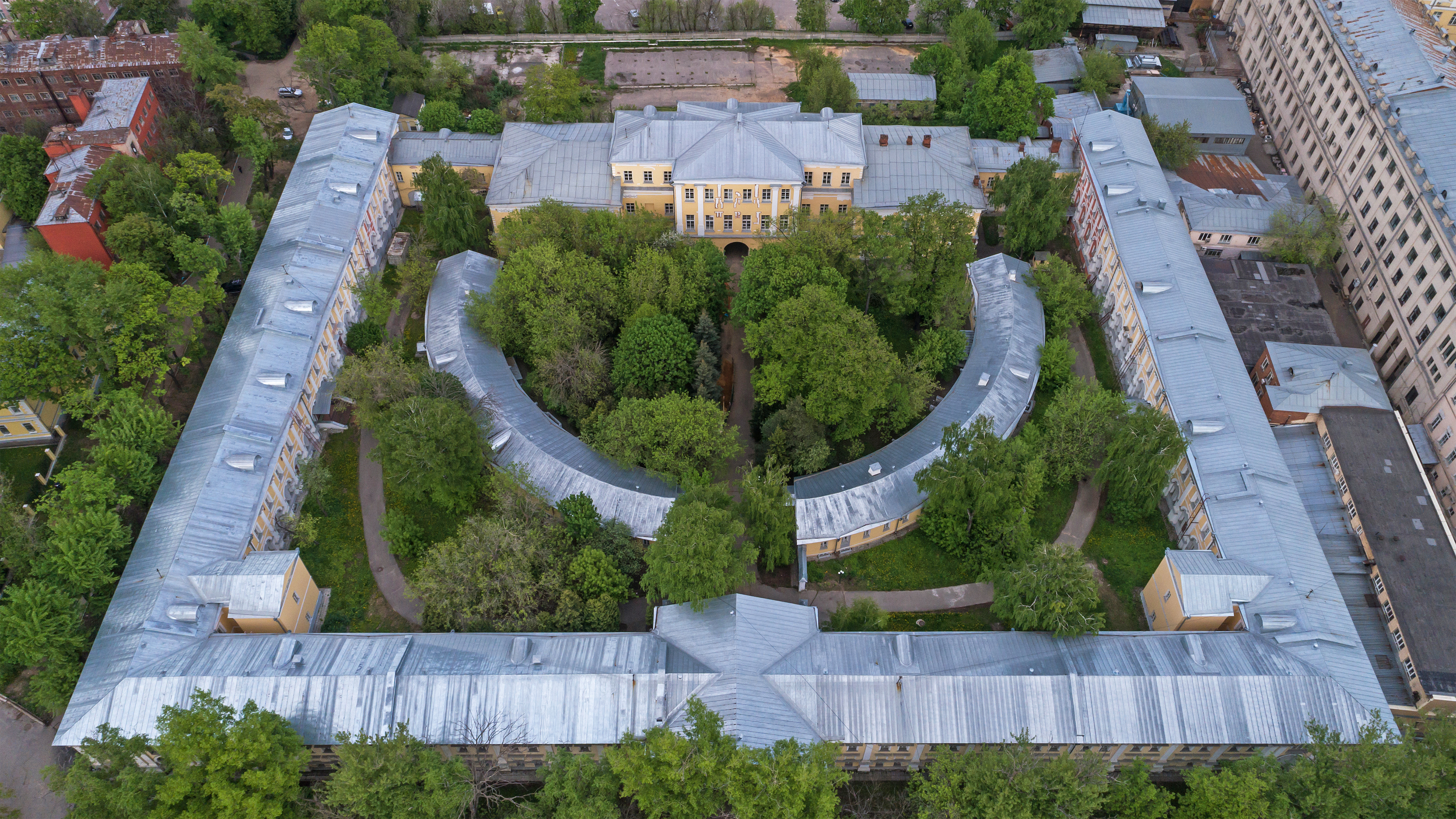 Aerial photo of Lefortovo Palace in Moscow (Russia).